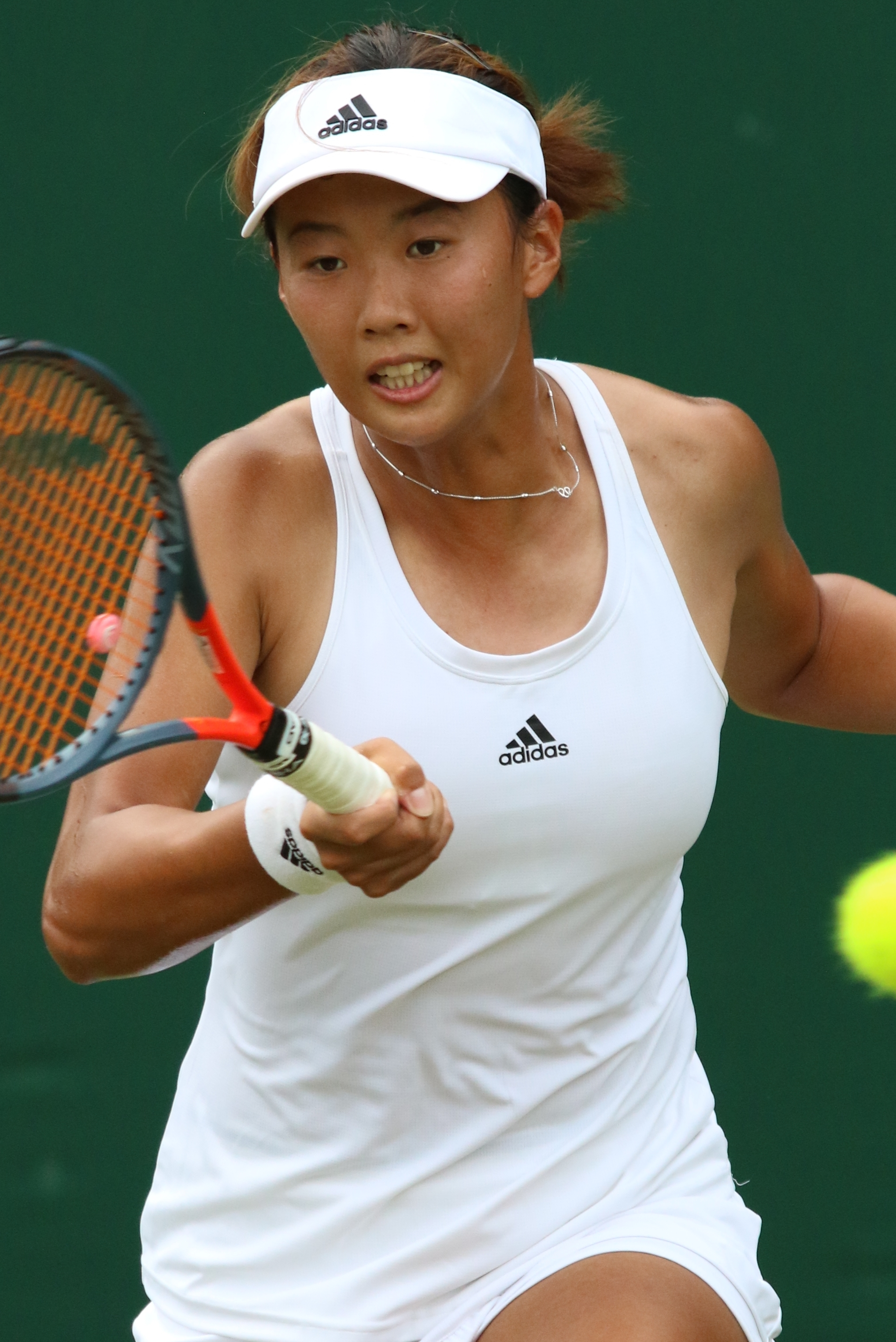 2019 Wimbledon Qualifying Tournament.